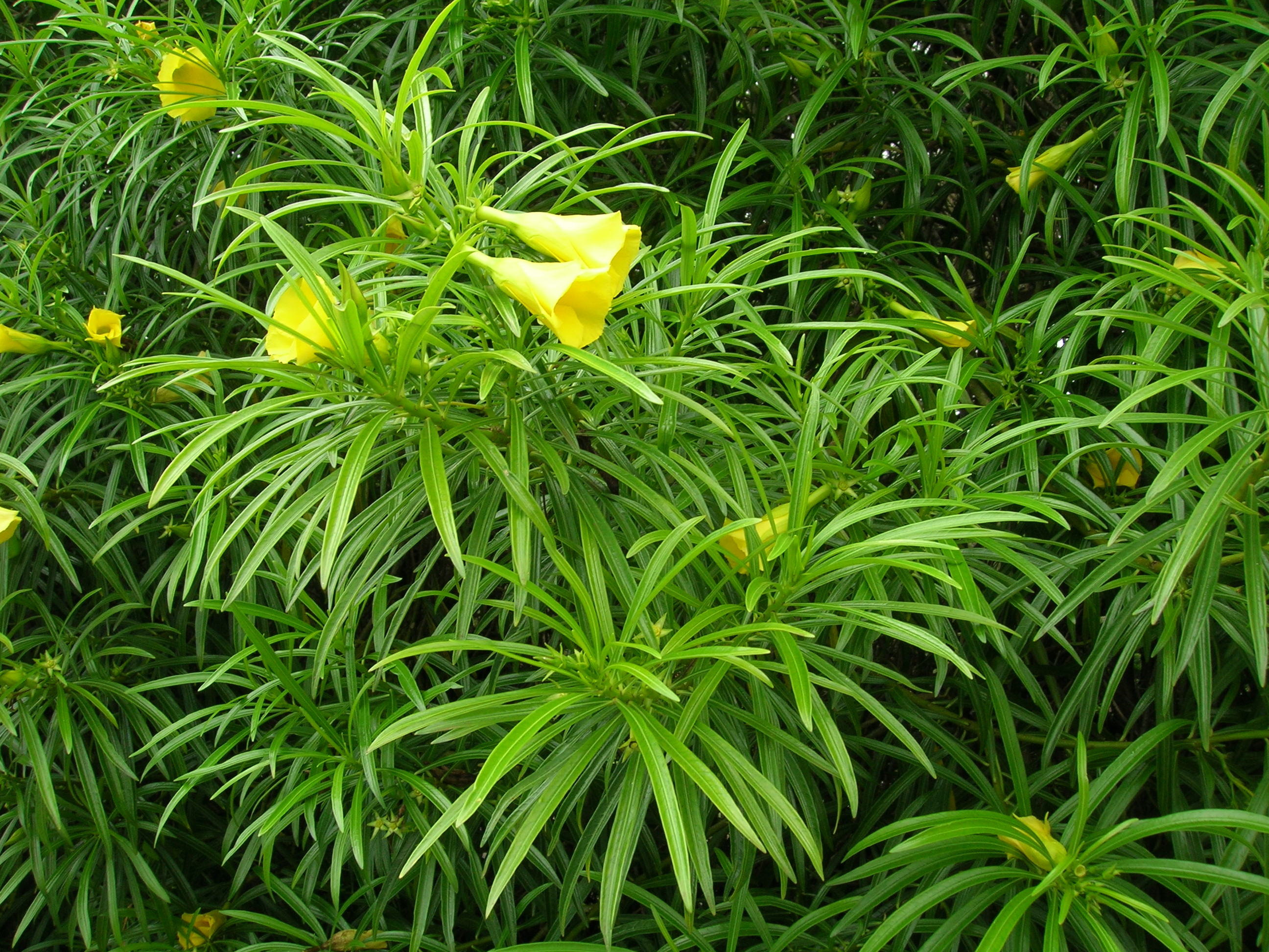 Thevetia peruviana (flowers). Location: Maui, Kula